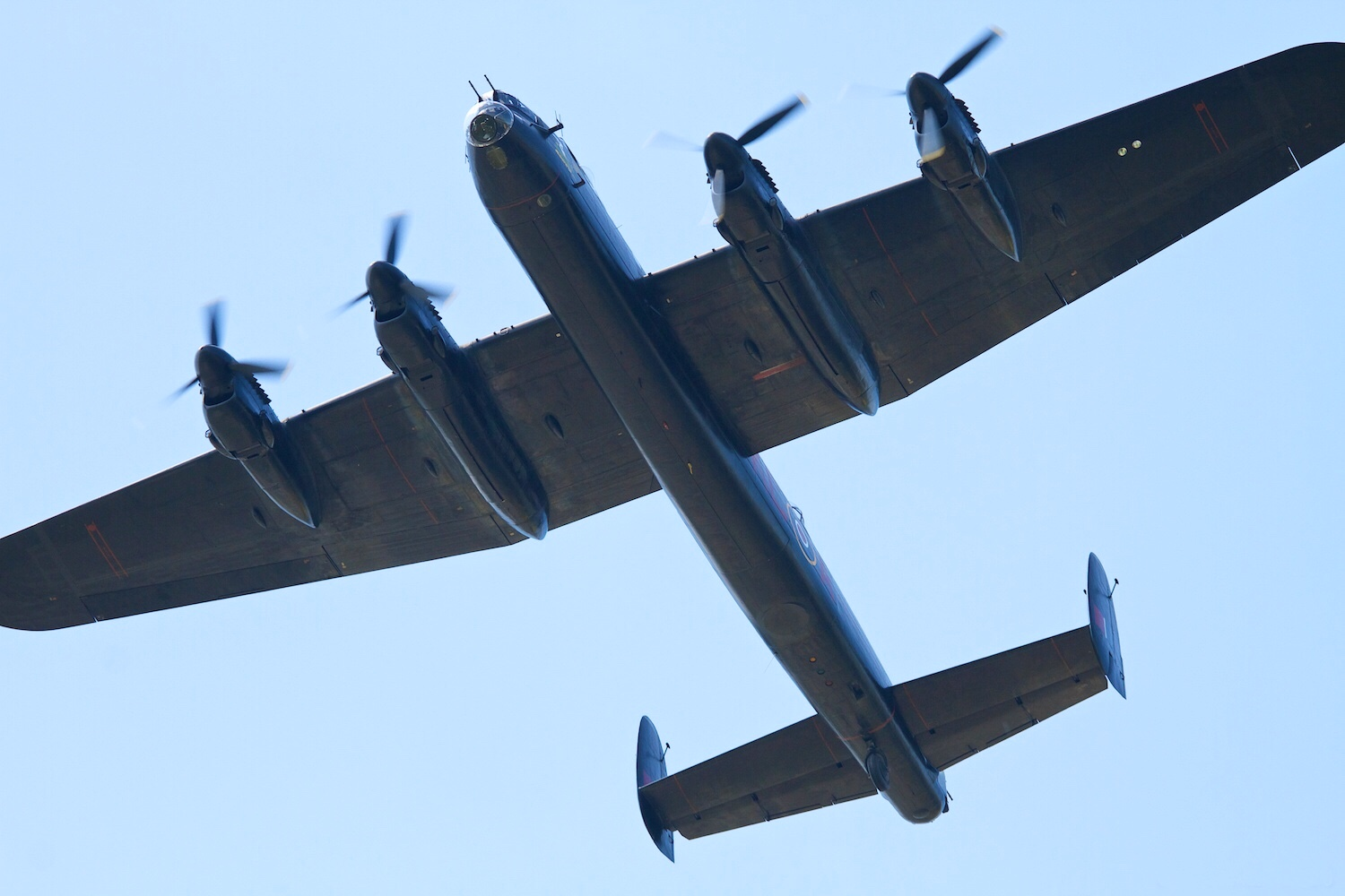 Cosford Airshow - Looming Lancaster